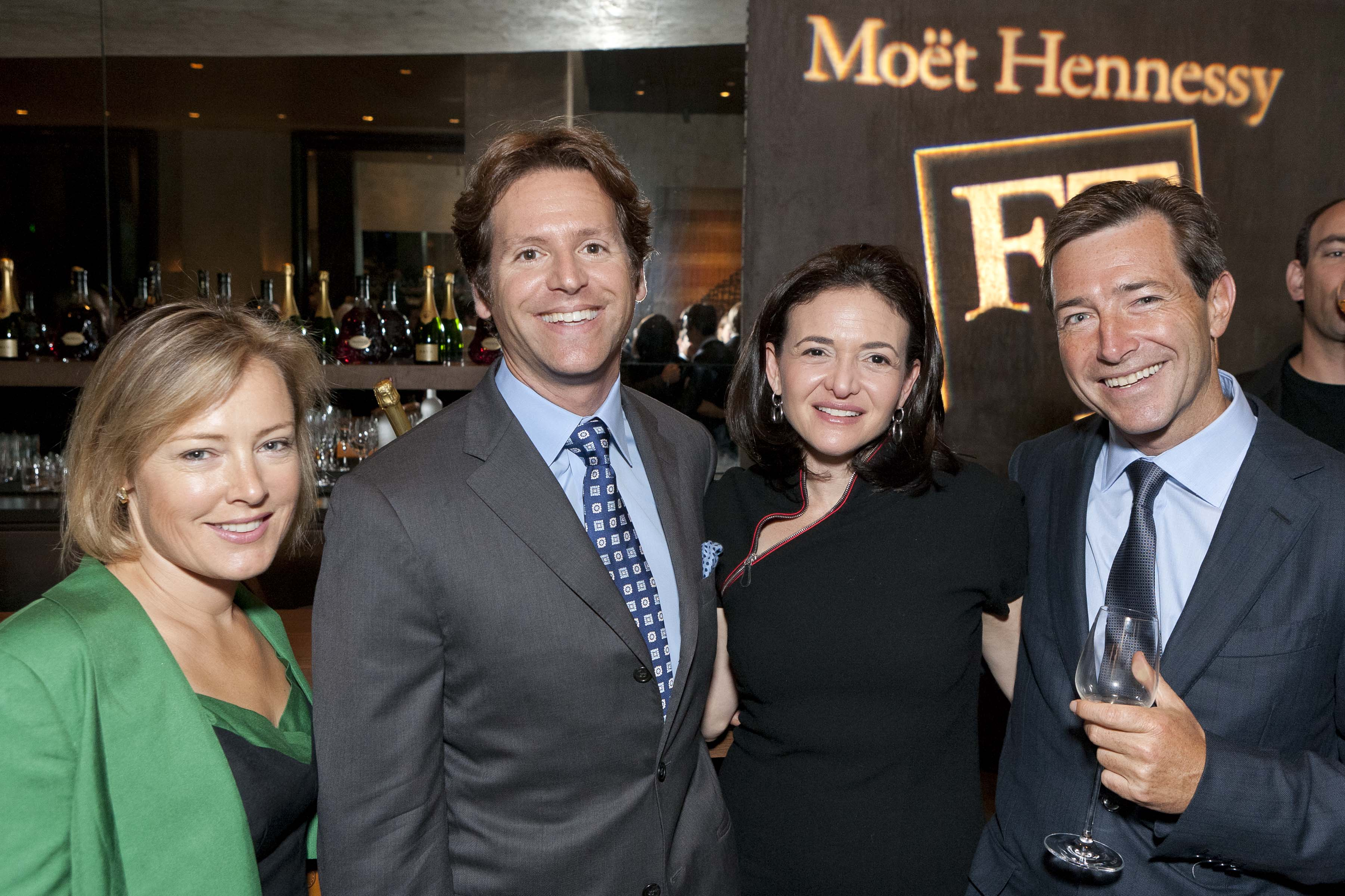 Photo Credit: Drew Altizer